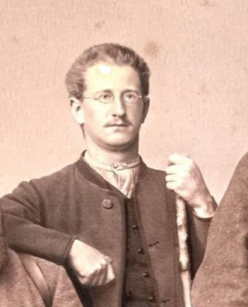 Theodor Lampart